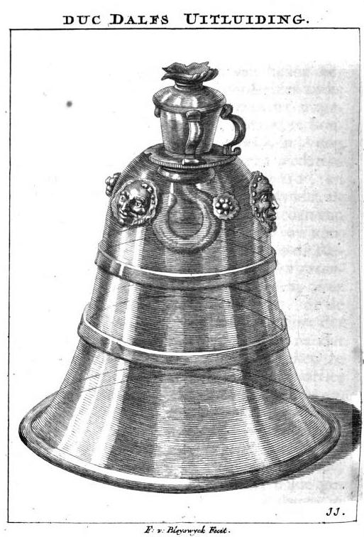 Bell-shaped 16th-century Venetian-styled glass, called 'Duc d'Alfs Uitluiding'. Engraving by Frans van Bleyswyck, in Van Alkemade and Van der Schelling, Displegtigheden (1735)